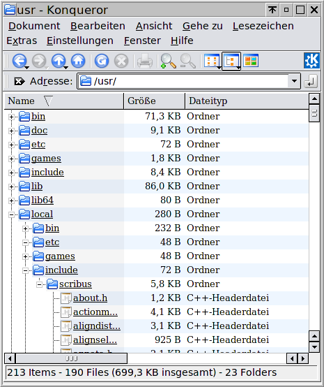 The "tree view" display mode of Konqueror v3.5.7, the KDE file manager running under Debian GNU/Linux.